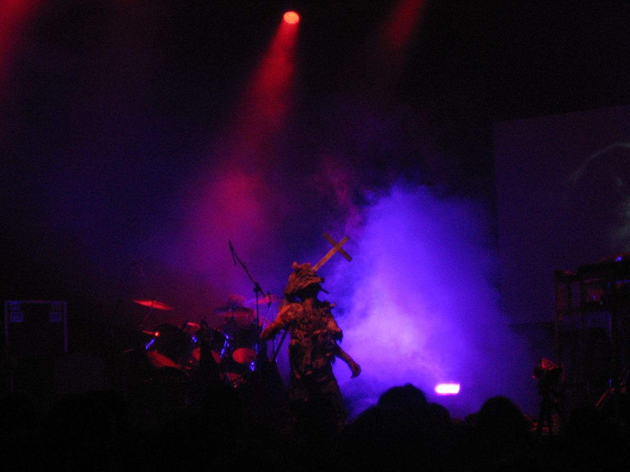 Skinny Puppy performing live at the London Astoria